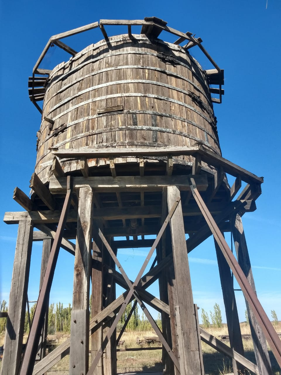 Antiguo tanque de agua que abastecía a la comunidad